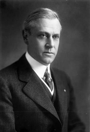 This is a portrait of the American conservationist Stephen Mather in 1916.